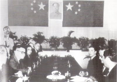 The image depicts the Governor of Macau signing a statement of apology at the Chinese Chamber of Commerce, under a portrait of Mao Zedong.